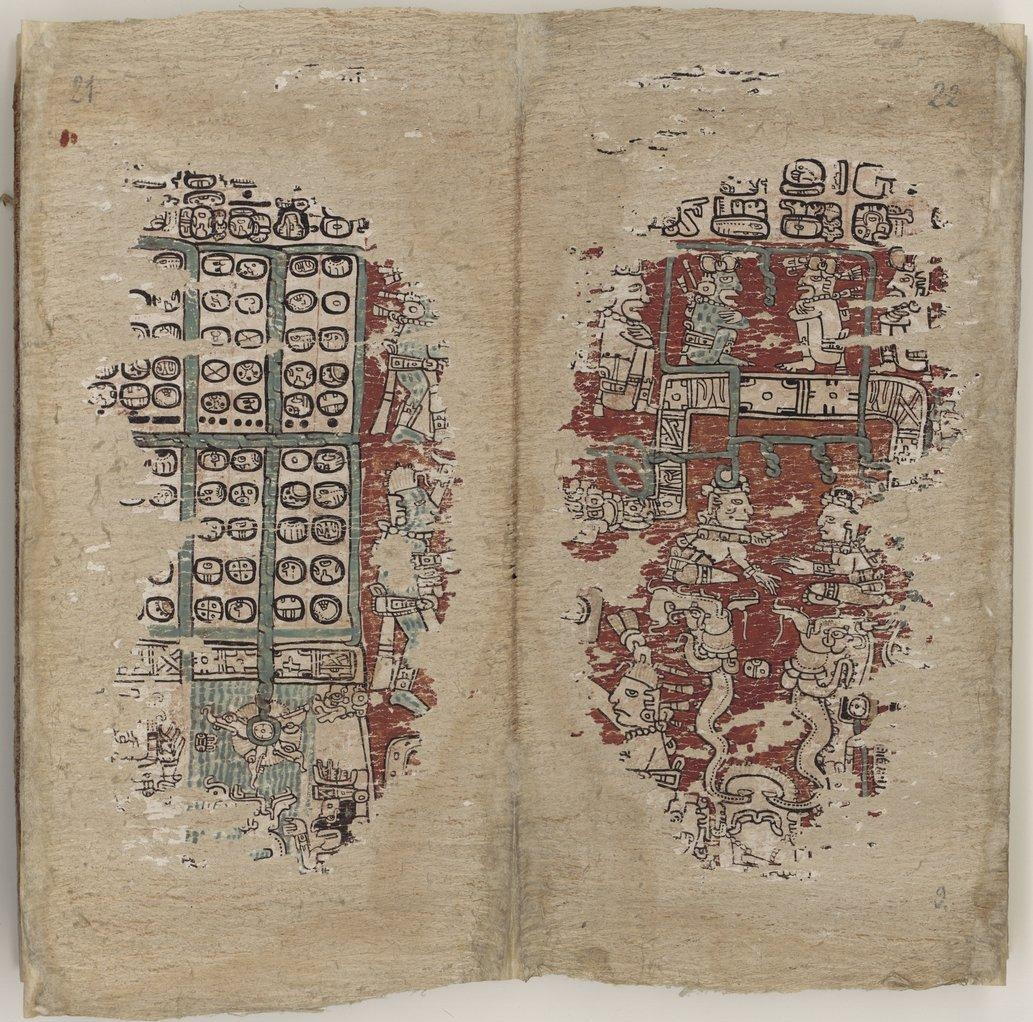 Pages 19-20 of the Paris Codex, a Postclassic Maya book.